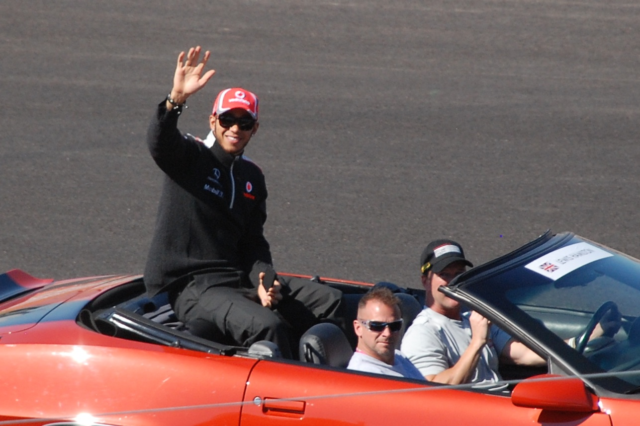 Lewis Hamilton, United States Grand Prix, Austin 2012